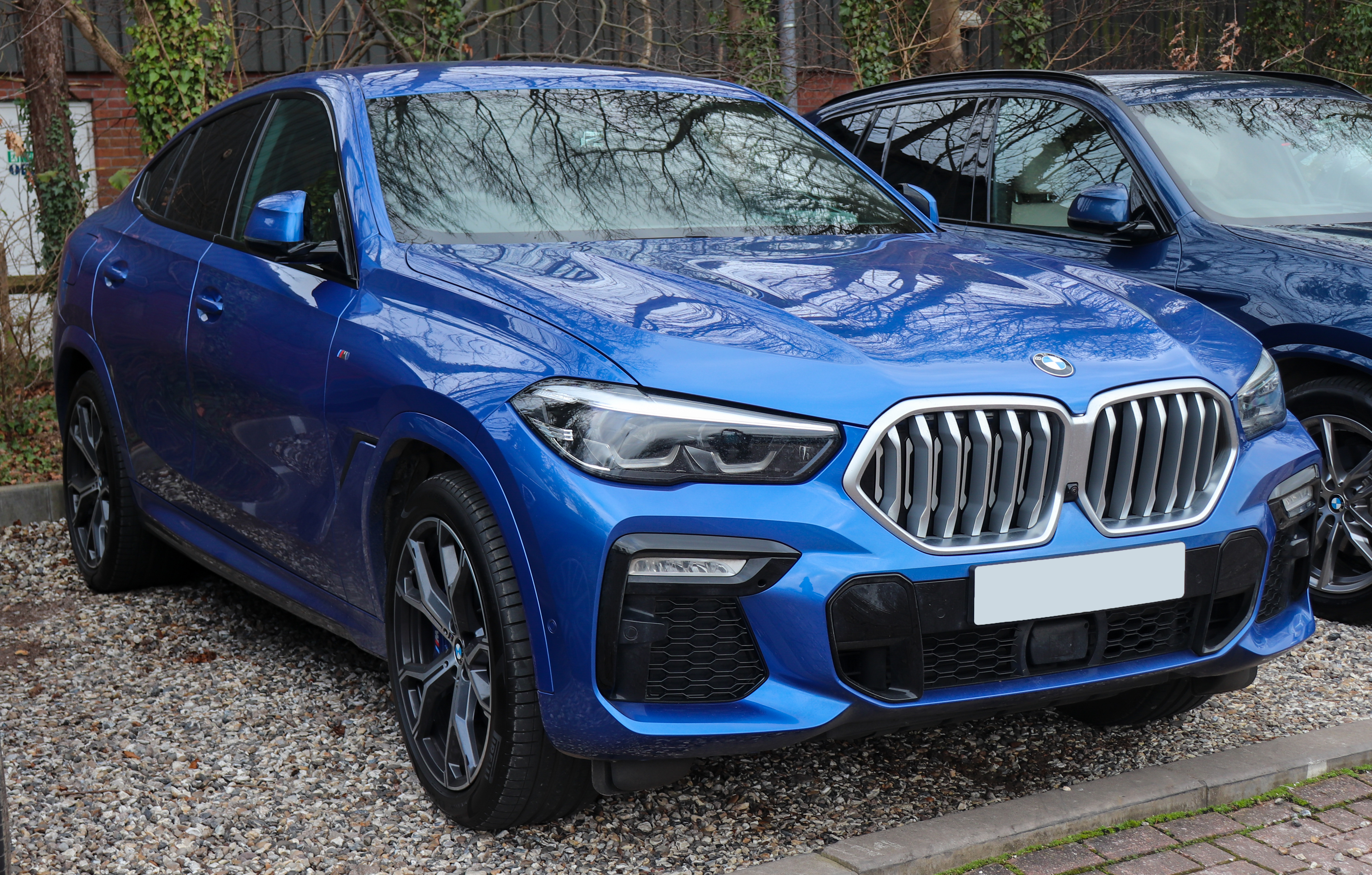 2020 BMW X6 xDrive30d M Sport Automatic 3.0 Taken in Leamington Spa